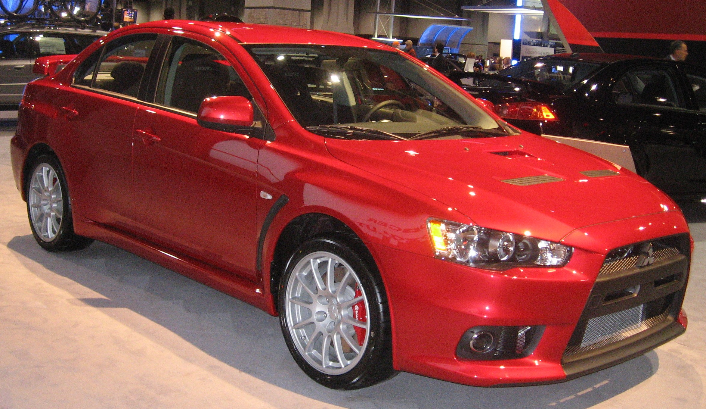 2009 Mitsubishi Lancer photographed at the 2008 Washington DC Auto Show.